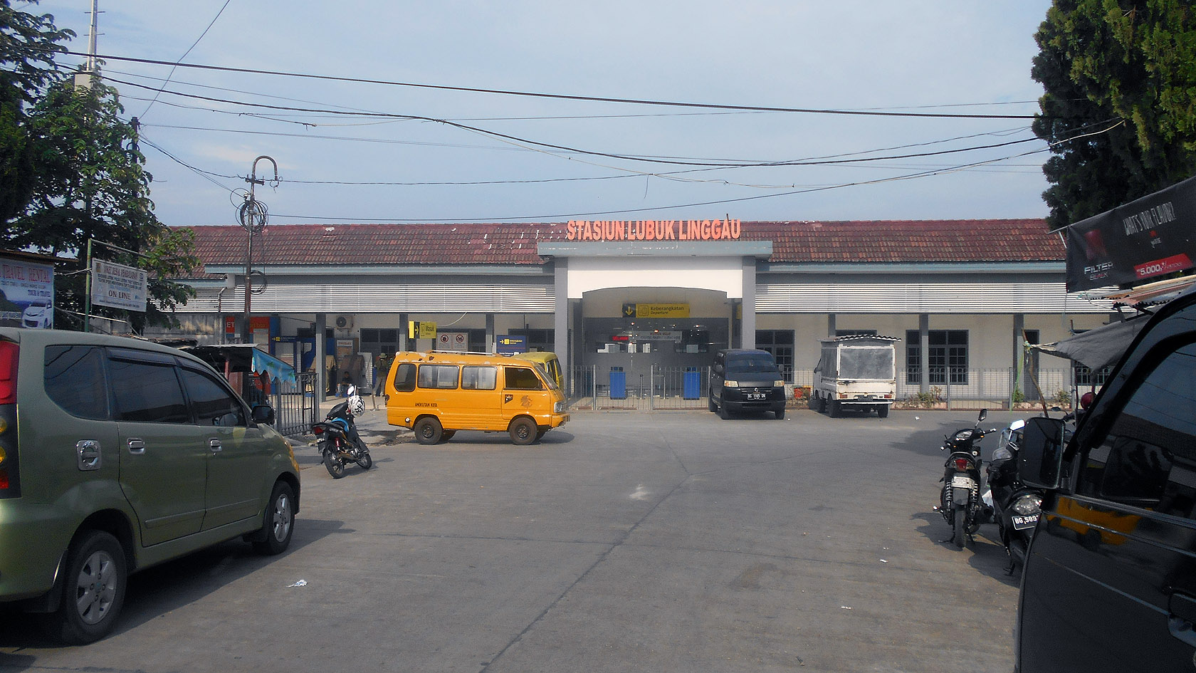 Lubuklinggau Railway Station located near Market